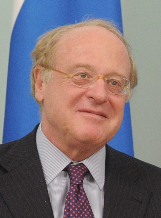 Eni CEO Paolo Scaroni, Prime Minister Vladimir Putin and President of the oil company Rosneft Eduard Khudainatov during the signing of a strategic cooperation agreement between Rosneft and Eni at the House of the Government of the Russian Federation, Moscow.